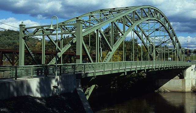 Ranger Bridge (Veterans Memorial Bridge) between Wells River, VT and Woodsville, NH, is a steel arch truss bridge over the Connecticut River, built in 1923 to replace a 1917 bridge undermined by a flood in 1922.